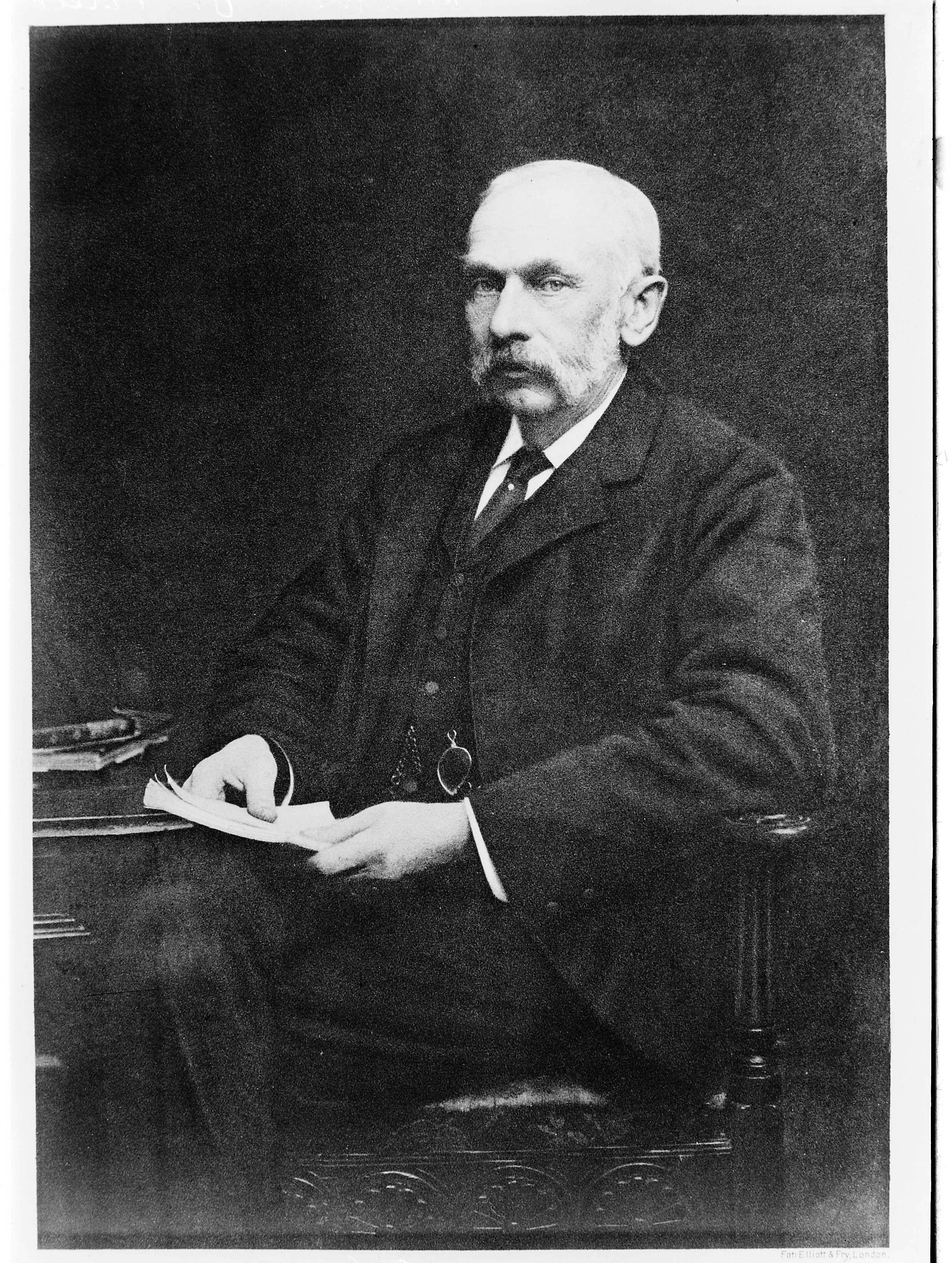 Portrait of Sir Rickman John Godlee Iconographic Collections Keywords: Rickman John Godlee